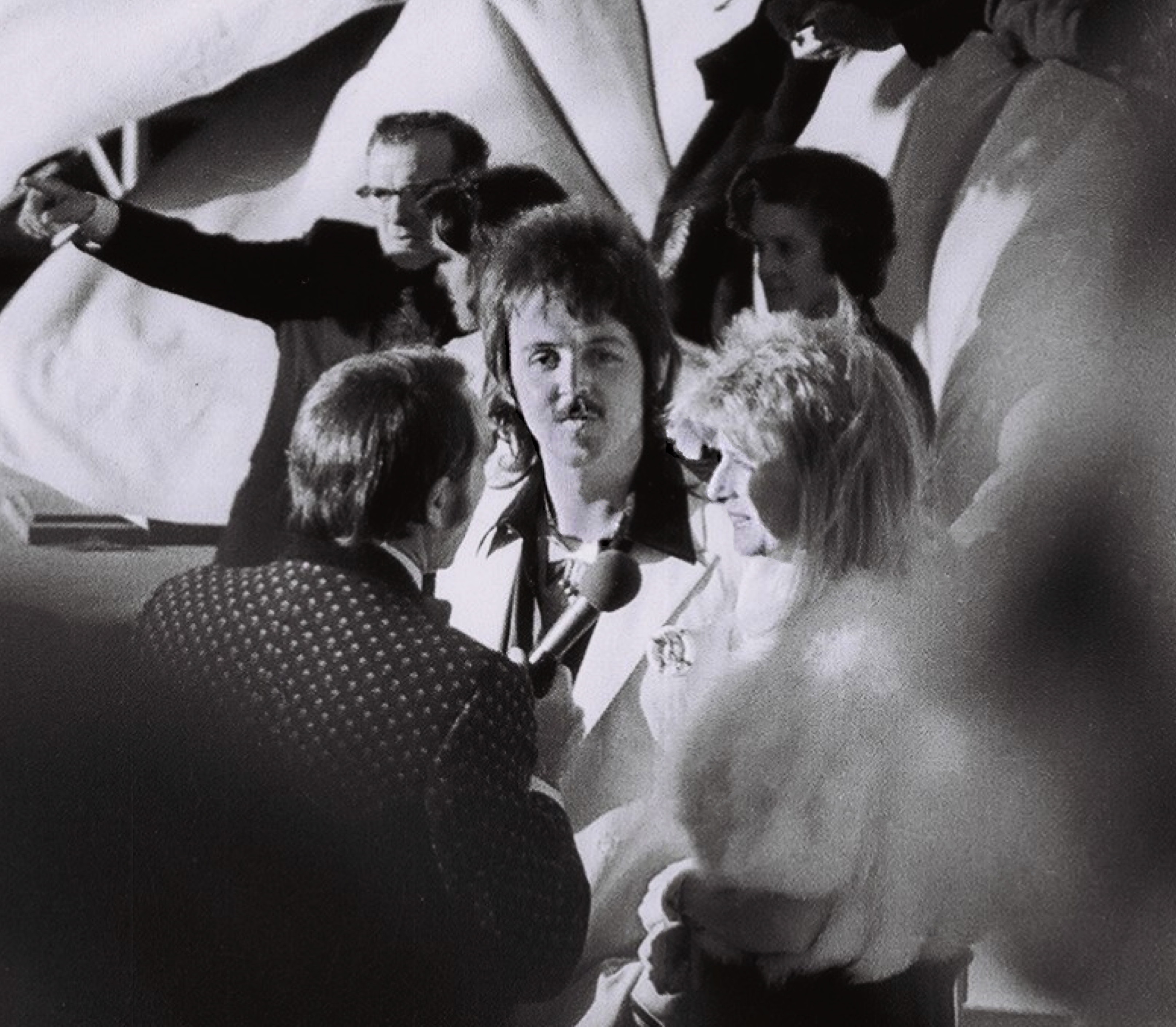 I took this Picture of Paul McCartney & Linda McCartney at the 1973 Academy Awards (which were presented April 2, 1974 at the Dorothy Chandler Pavilion in Los Angeles) when Paul was nominated for "Live & Let Die." Paul & Linda walked up to the podium and Army Archerd started asking him questions on live TV. Paul then turned his head and stared directly at me, totally ignoring the interviewer, and giving me an eerie feeling - was he actually looking at me? I pulled the viewfinder of the camera away from my eye, I had no more film, having just taken this last frame of Paul & Linda, but he continued his penetrating stare. I was getting nervous, here was my idol, staring at me! Army valiantly kept asking questions of Paul, who continued his unblinking stare, keeping perfectly silent. Finally Linda would answer the question. This went on for five or six questions. Finally, Army dejectedly said "Well, thanks Paul" to which Paul suddenly turned to Army shaking his hand saying "Thank You, Army, great questions, you're the best, always love talking to you." Then he and Linda walked over near me and deliberatly turned their backs to me just as they got close, sidestepping in front of me. I guess Paul was feeling playful and decided to give a young man a thrill, it worked!